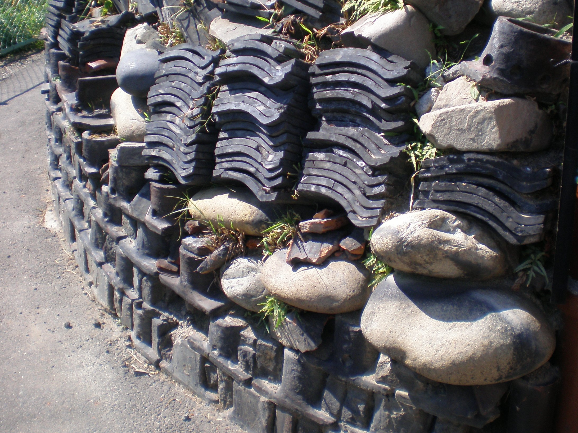 Stacked Roof Tiles at Tokoname Yakimono Street.